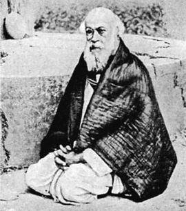 Mahendranath Gupta (1882-1932) (see